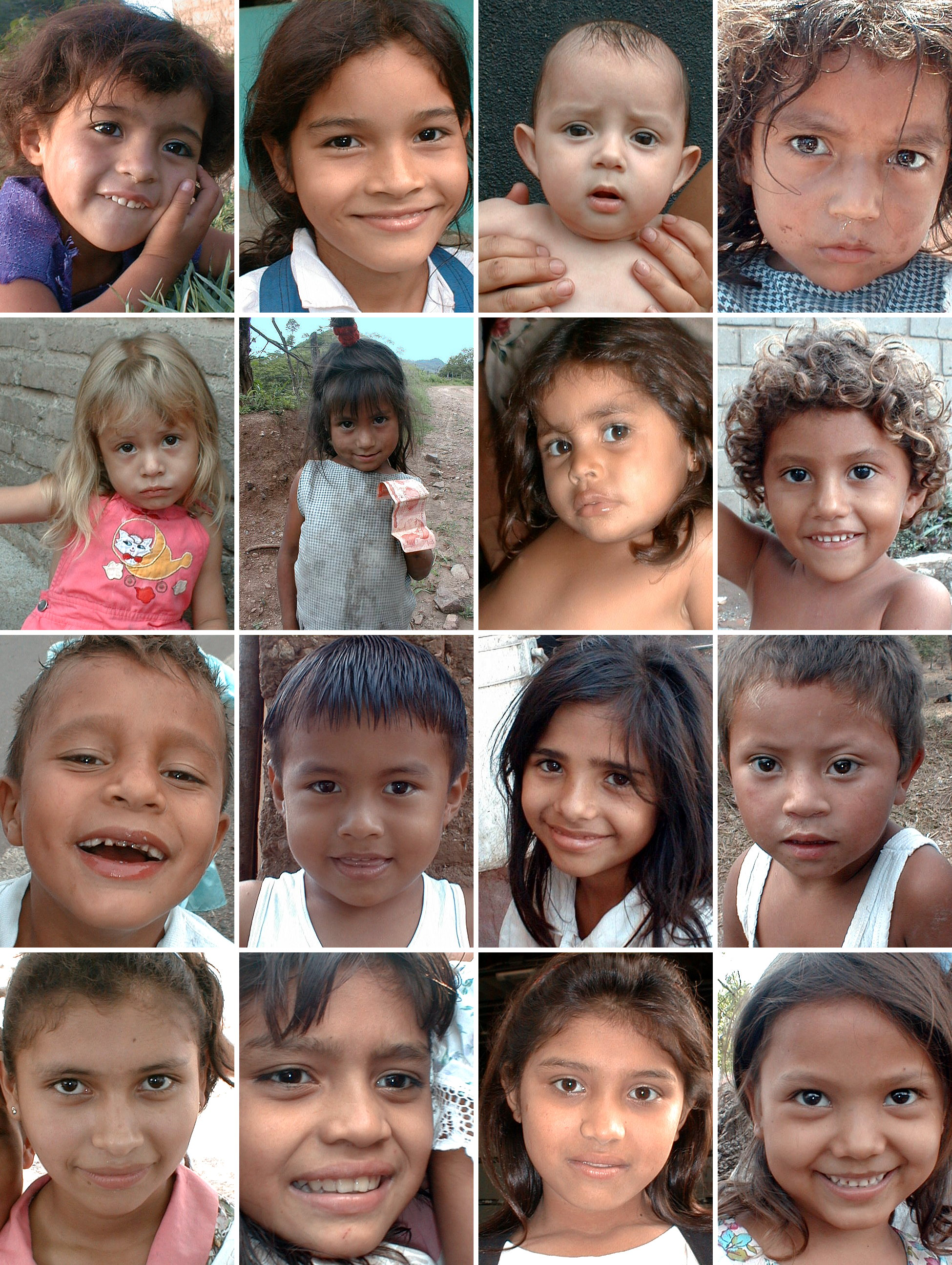 Rostros de los niÃ±os 1999 16 faces celebrating the wisdom of children. Camera Info: OLYMPUS SR83 Digital Contact creator at - This image is also available there under the directory link "Composite Group 01" as a multi-layer .xcf file.